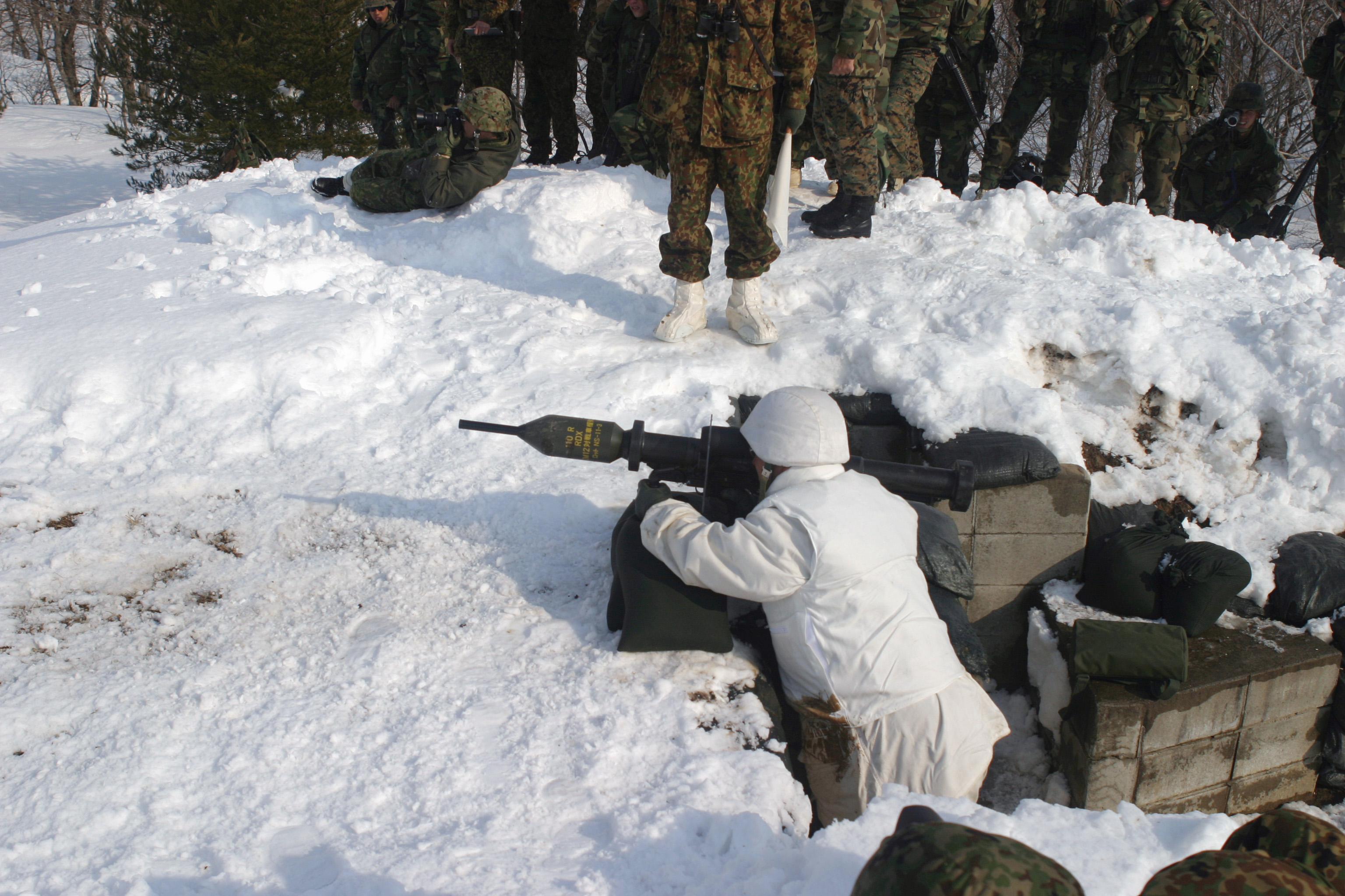 A Japanese Ground Self Defense Force (JGSDF) Soldier from the 20th Infantry Regiment (dressed in white cold-weather gear), prepares to engage targets down range with a Panzerfaust 3-T 600 Light Anti-tank Weapon, during a live fire exercise conducted at the snow covereded Ojojibara Maneuver Area of Sendai, Japan, while participating in Exercise FOREST LIGHT 2004. Forest Light is a bi-lateral training exercise conducted between the US Marine Corps (USMC) and the JGSDF. VIRIN: 040212-M-8205V-004